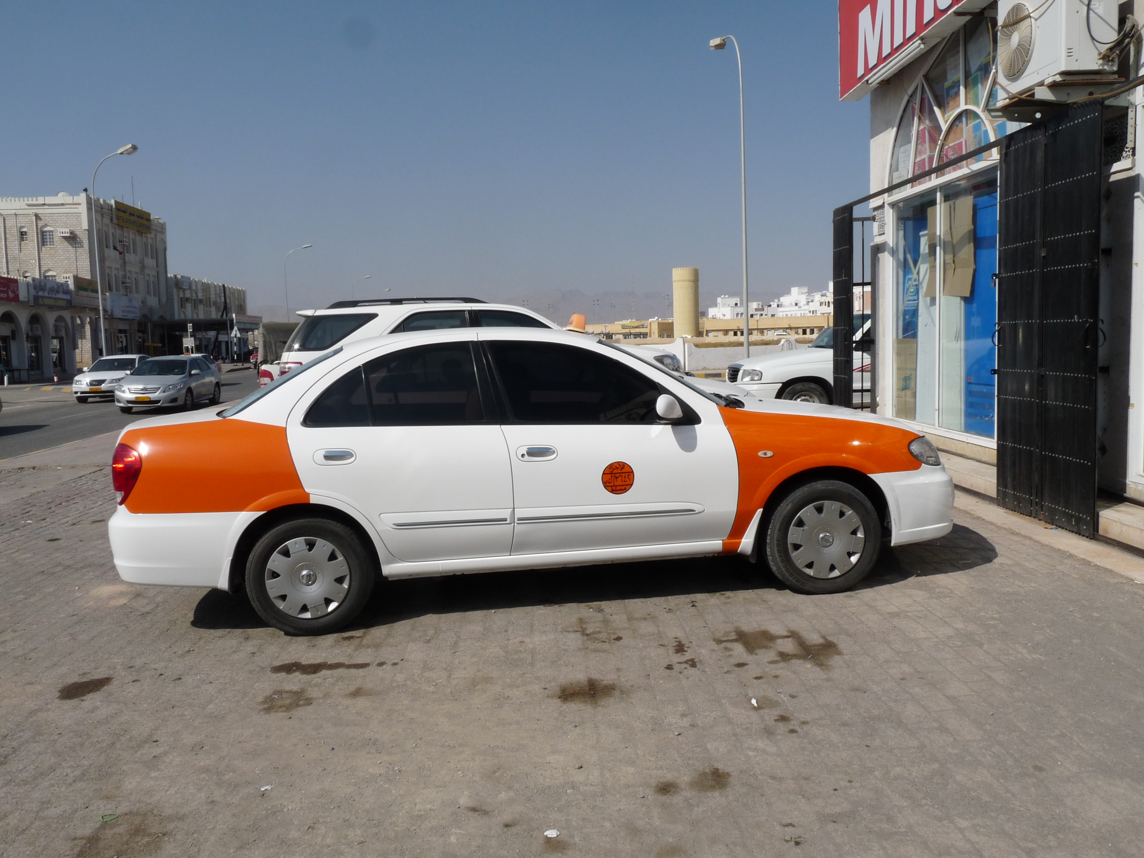 Taxi in Sur (Oman)